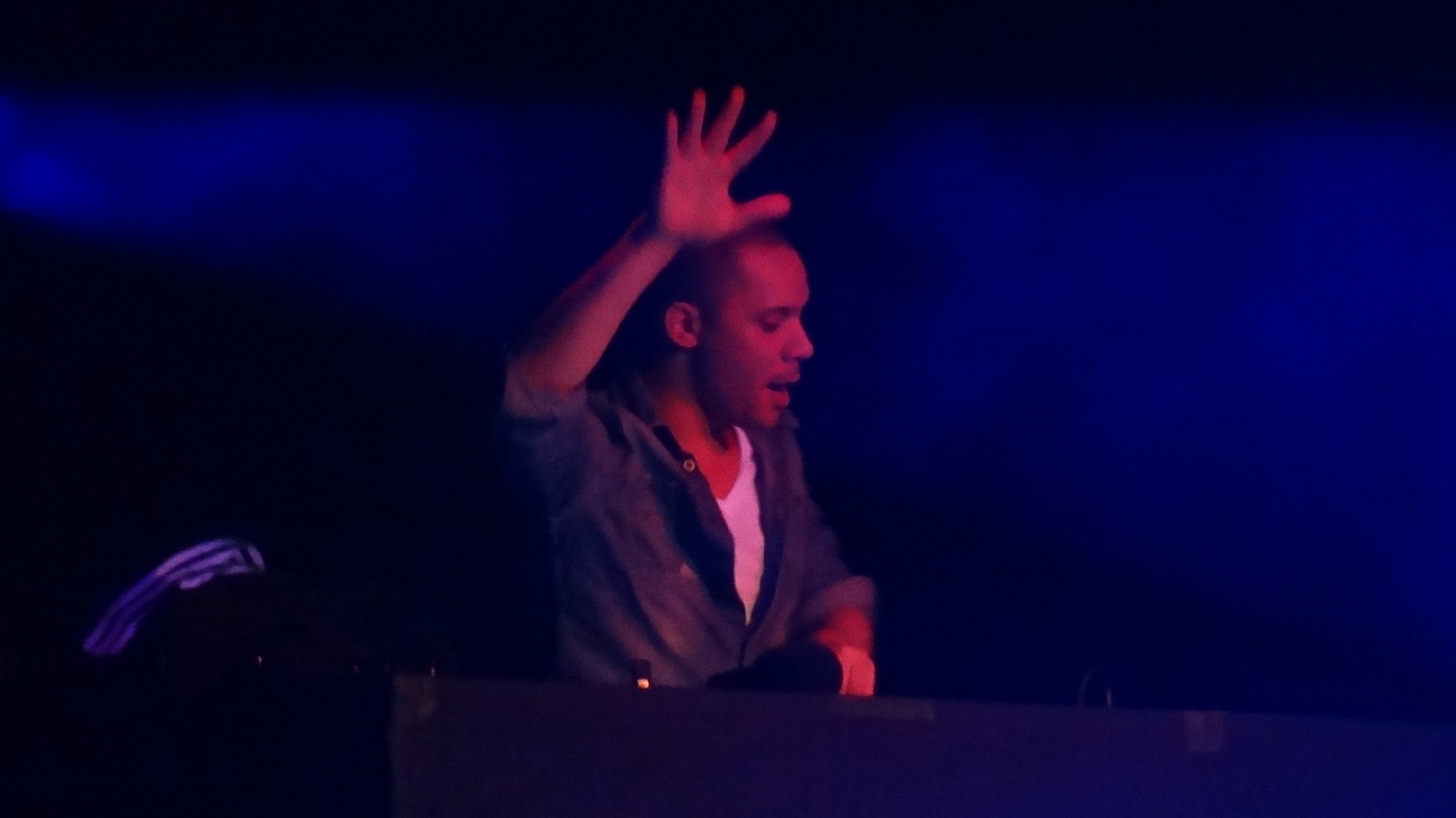 Dutch Hardstyle artist Wildstylez (Joram Metekohy) playing at Kolingsborg in Stockholm as part of the Scantraxx 10 years tour.